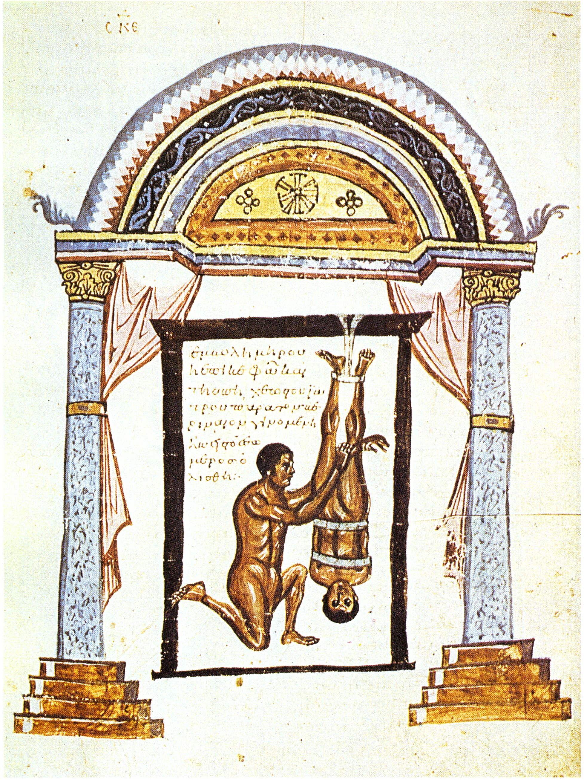 Apollonios of Kition, De articulis. Illumination based on the model of a drawing in an ancient book showing the resetting of a thigh. Florence, Biblioteca Medicea Laurenziana, Plut. 74,7, fol. 198v.